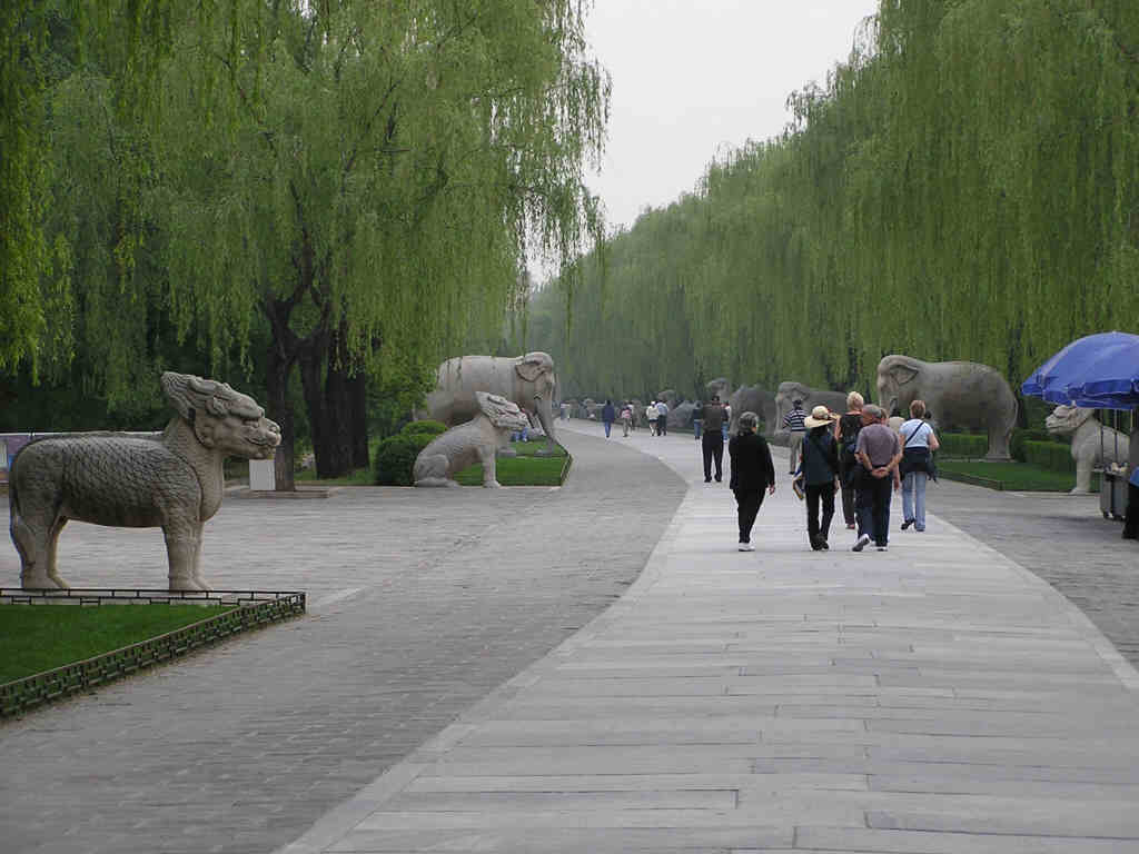 Standing in the Spirit Way at the Ming Tombs looking back towards the entry gate. Photo taken by Richard Chambers on AAA Yangtze Sampler Tour, May 2004. This photo was taken on a walk from the Ming Tomb site back towards the front gate. There appeared to be two main sections of statues along the walk way, the first section from the front gate contains figures of animals and the second section from the front gate nearest to the tombs contains figures of people. The figures of people appear to be of generals and imperial assistants. The figures are in sets of two identical figures, one on each side of the walkway. It appeared that the animal figures are arranged so that there is a set of an animal standing and a second set of the same type of animal kneeling or sitting. Along the walkway there is a presentation of the restoration of the area that was started in the early 1920's by a French museum. This photograph shows the current beauty of the walkway but from the photos of the presentation, the area was a wasteland when the French restoration project was started. Some of the figures show repaired damage. The tour guide said the damage was from the time of the Cultural Revolution en: Cultural_Revolution . See the Wikipedia entry for Ming Tombs en: Ming_Dynasty_Tombs .